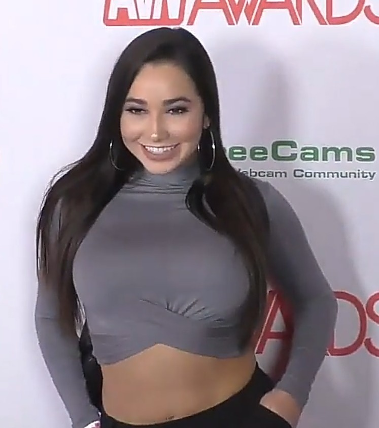 Karlee Grey at the 2017 AVN Awards Nomination Party at Avalon Nightclub in Hollywood